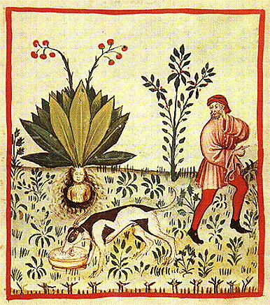 The Fruit of the Mandragora (Fructus Mandragora) Nature: Cold in the third degree, dry in the second. Optimum: The highly fragrant variety. Usefulness: Smelling it helps alleviate headaches and insomnia; spreading it on the skin works against elephantiasis and black infections. Dangers: It stupifies the senses. Neutralization of the Dangers: With the fruits of ivy. Effects: It is not comestible. It is good for warm temperaments, for the young, in Summer, and in the Southern regions. From the Tacuinum of Vienna